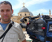 Oren Rosenfeld Filming in Jerusalem, 2012